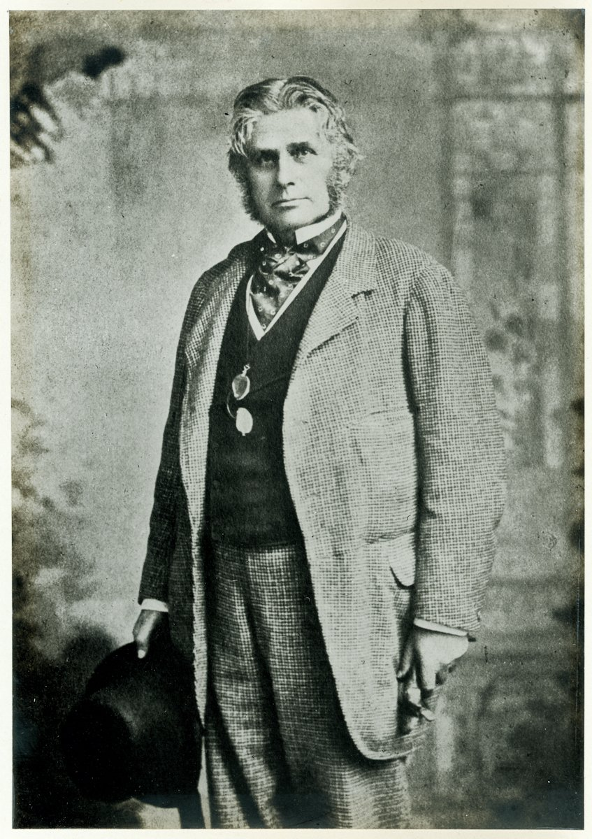 Photograph of Augustus Pitt Rivers